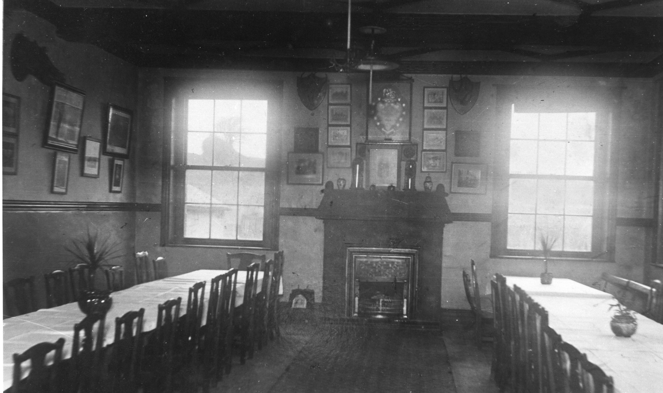 This is an old photo